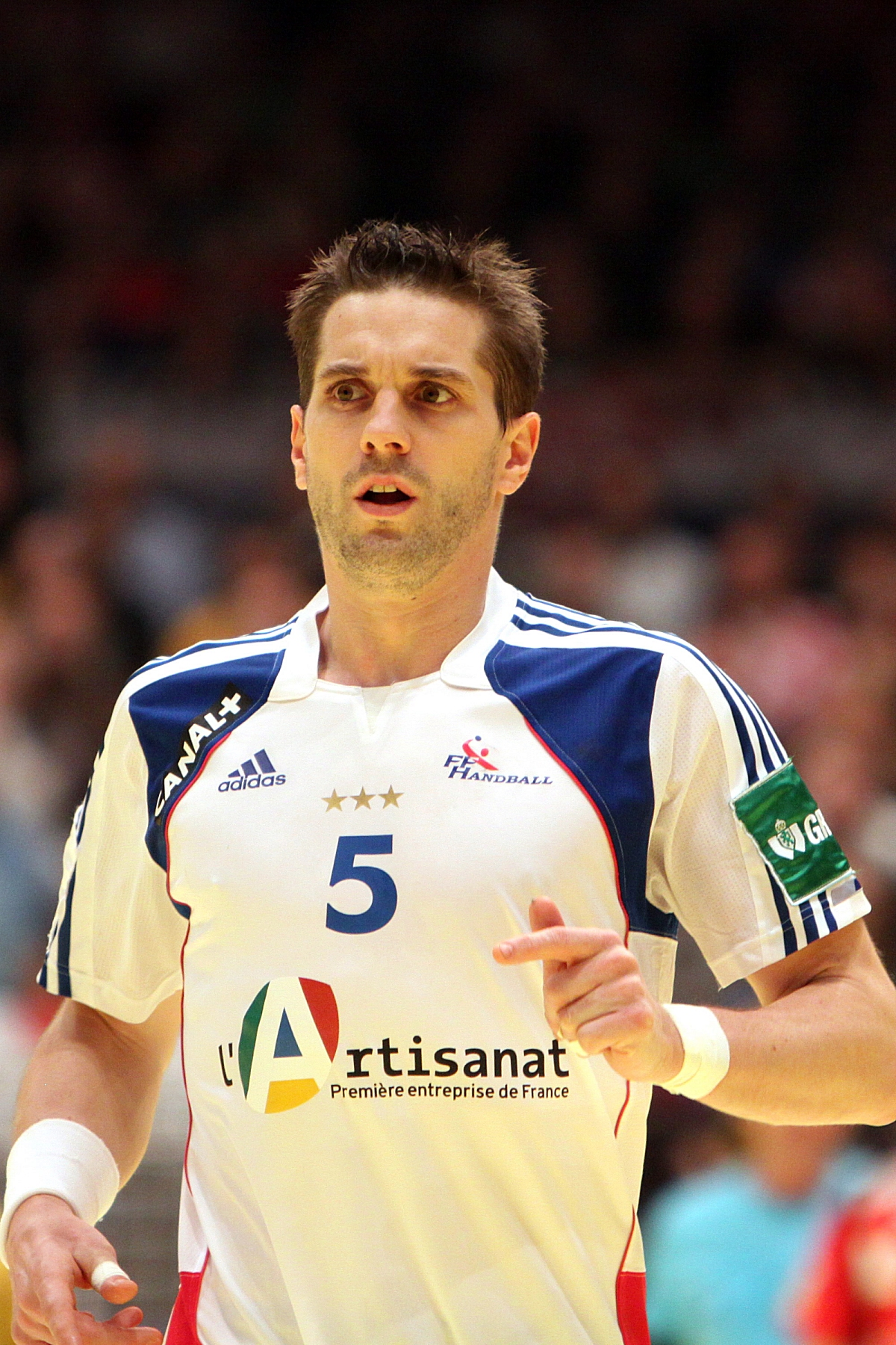 Guillaume Gille (HSV Hamburg), France national handball team